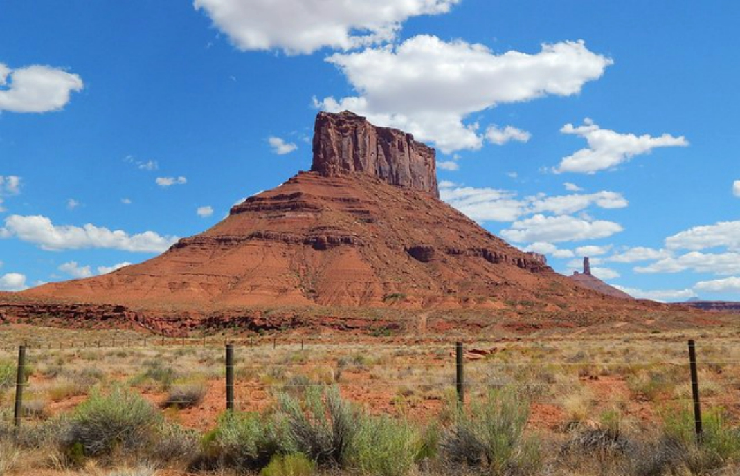 Convent Mesa, aka The Convent near Moab and Castle Valley, Utah